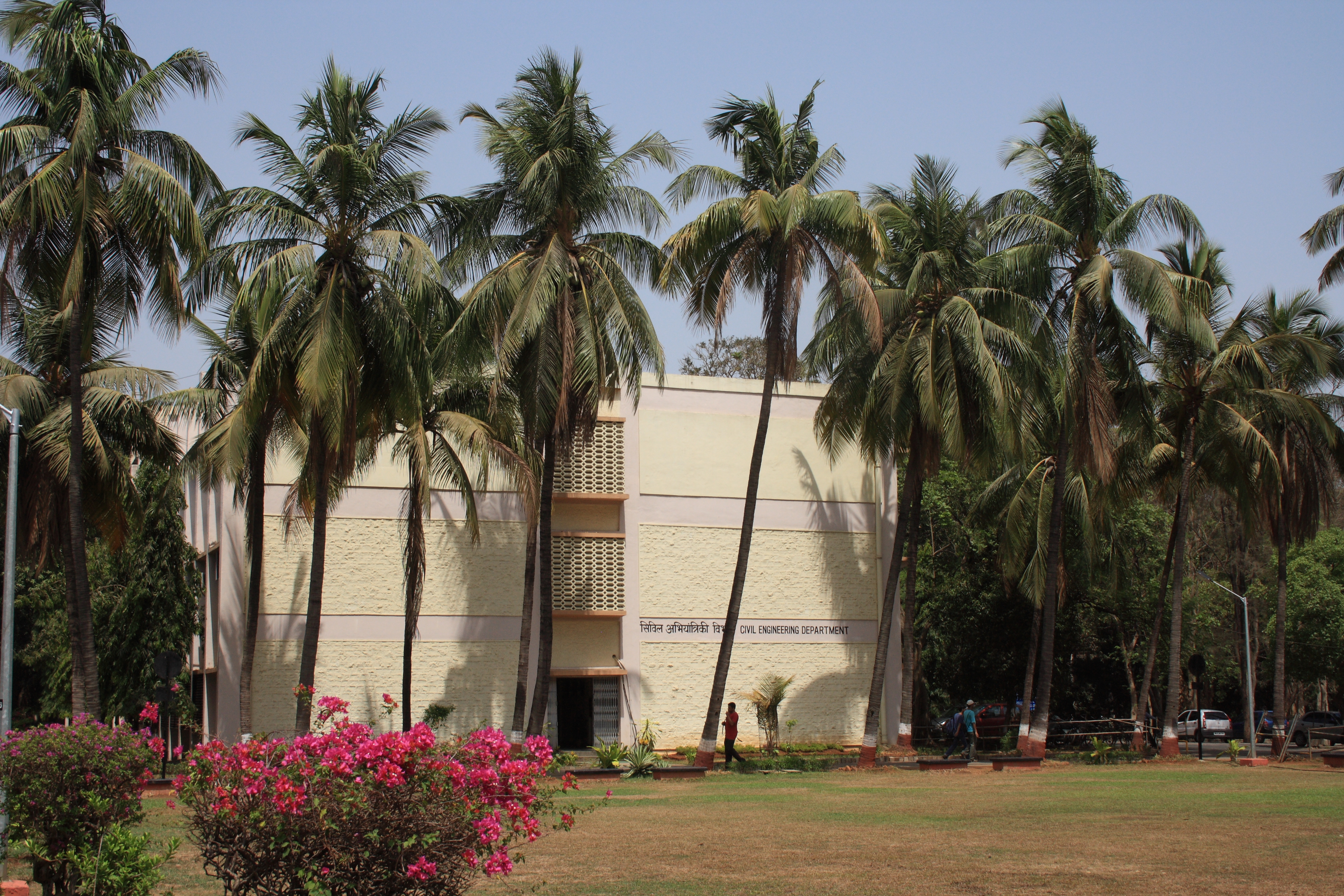 Department of civil engineering on the Campus of IIT Bombay